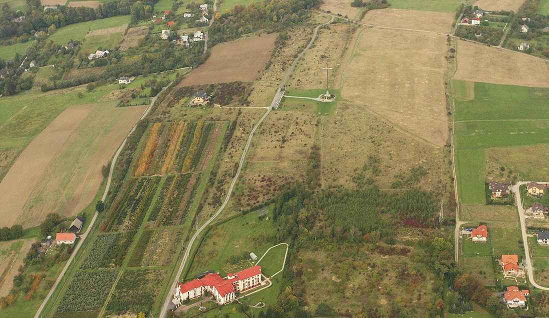 Aerial photography of Trzy Lipki - hill in Bielsko-Biała, Poland.